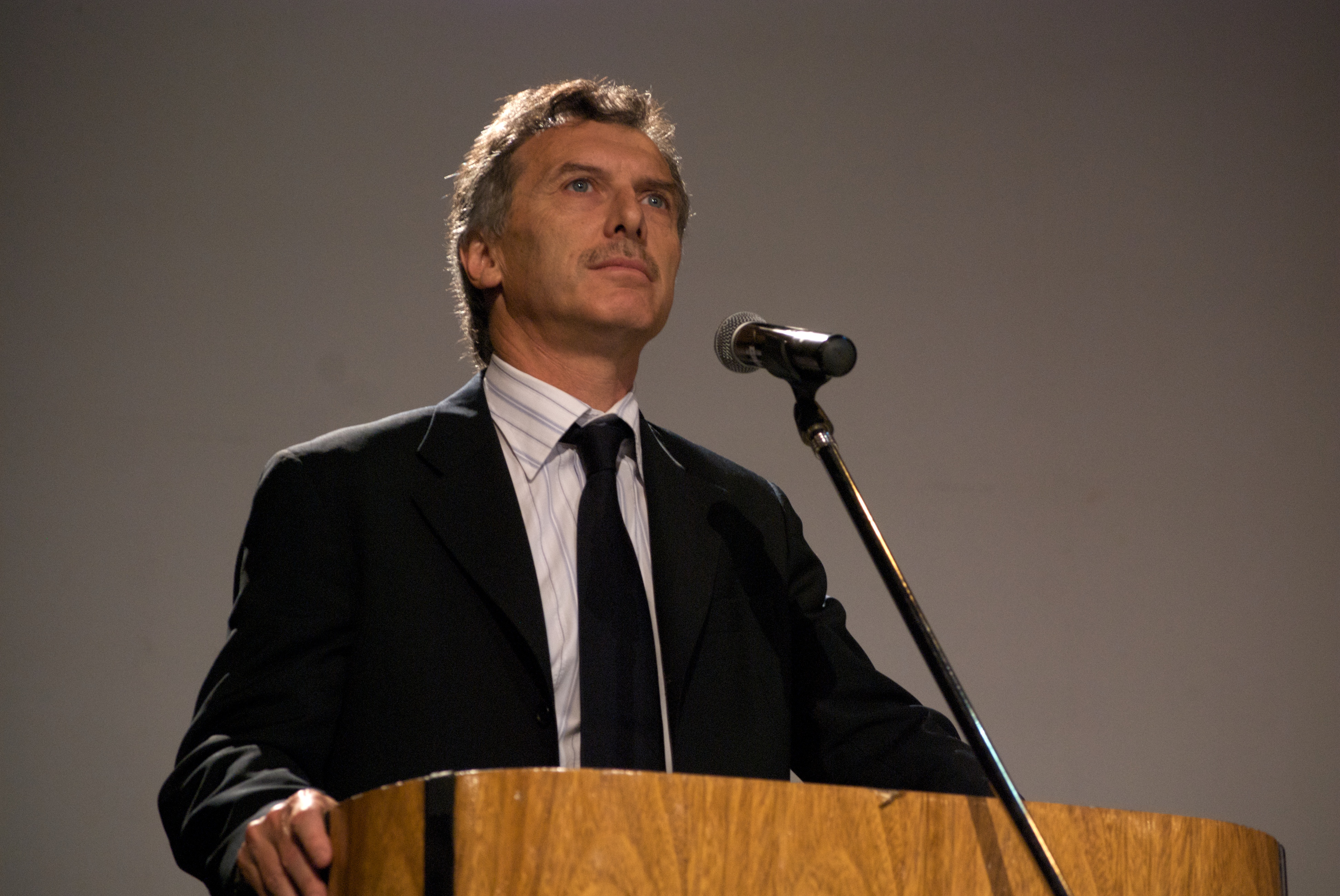 Mauricio Macri speaking at Wikimania 2009 opening ceremony.